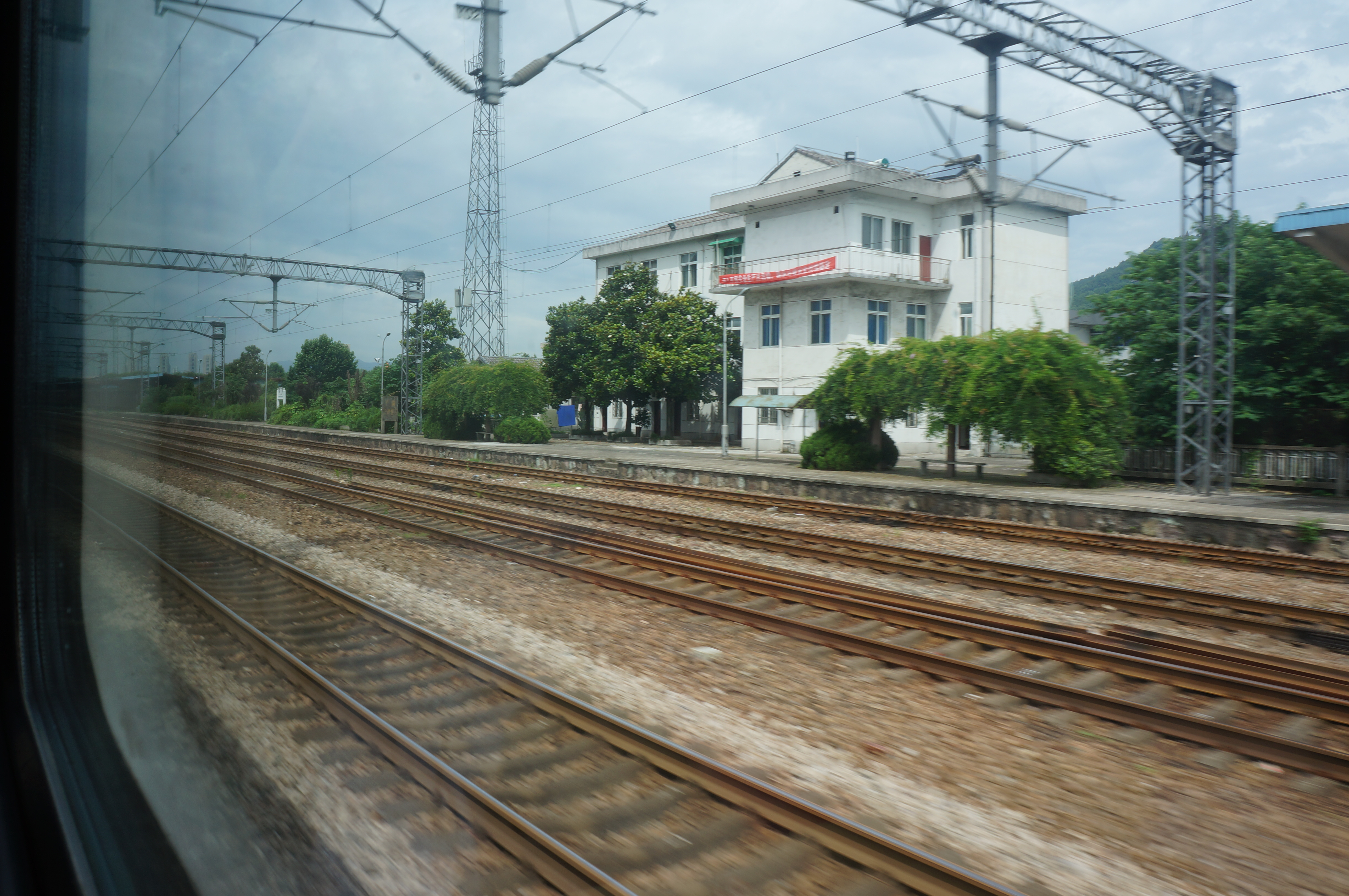 201606 Z9 passes Linping Station